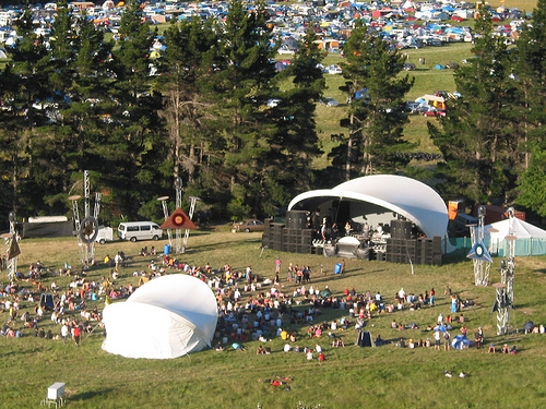 The main stage at Alpine Unity - A New Years Eve festival in the South Island of New Zealand